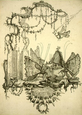 Engraving, La Toilette (1756) by Charles Germain de Saint Aubin. From "Essay de Papillonneries Humaines."